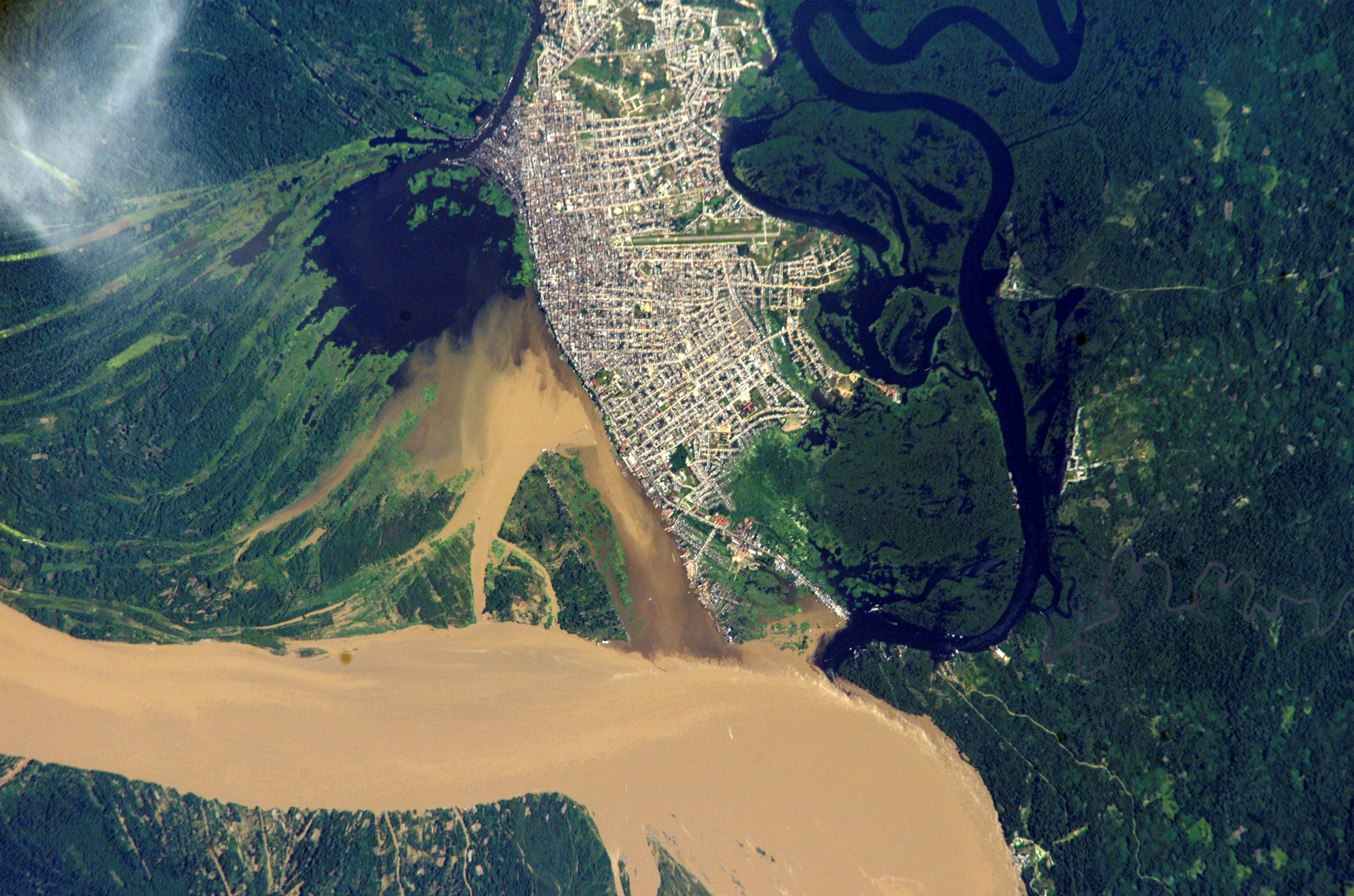 Satellite view of Iquitos